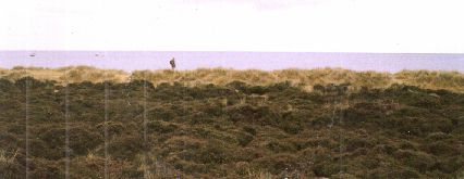 The 1 and 0 dunes at Studland, Dorset. Taken by me as part of a survey of the dunes (sorry about the poor quality scanner!).